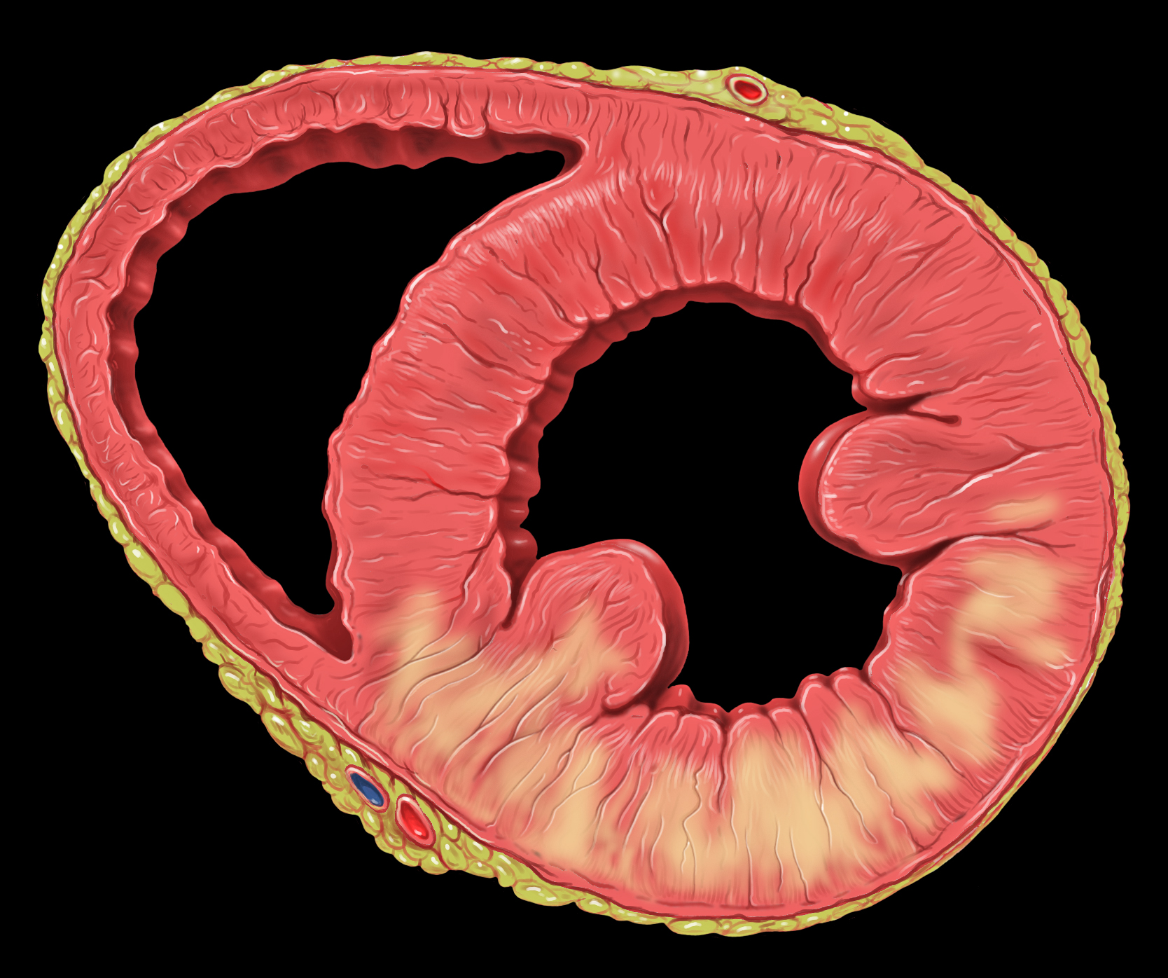 Inferior left ventricular wall dysfunction, short axis echocardiographic view